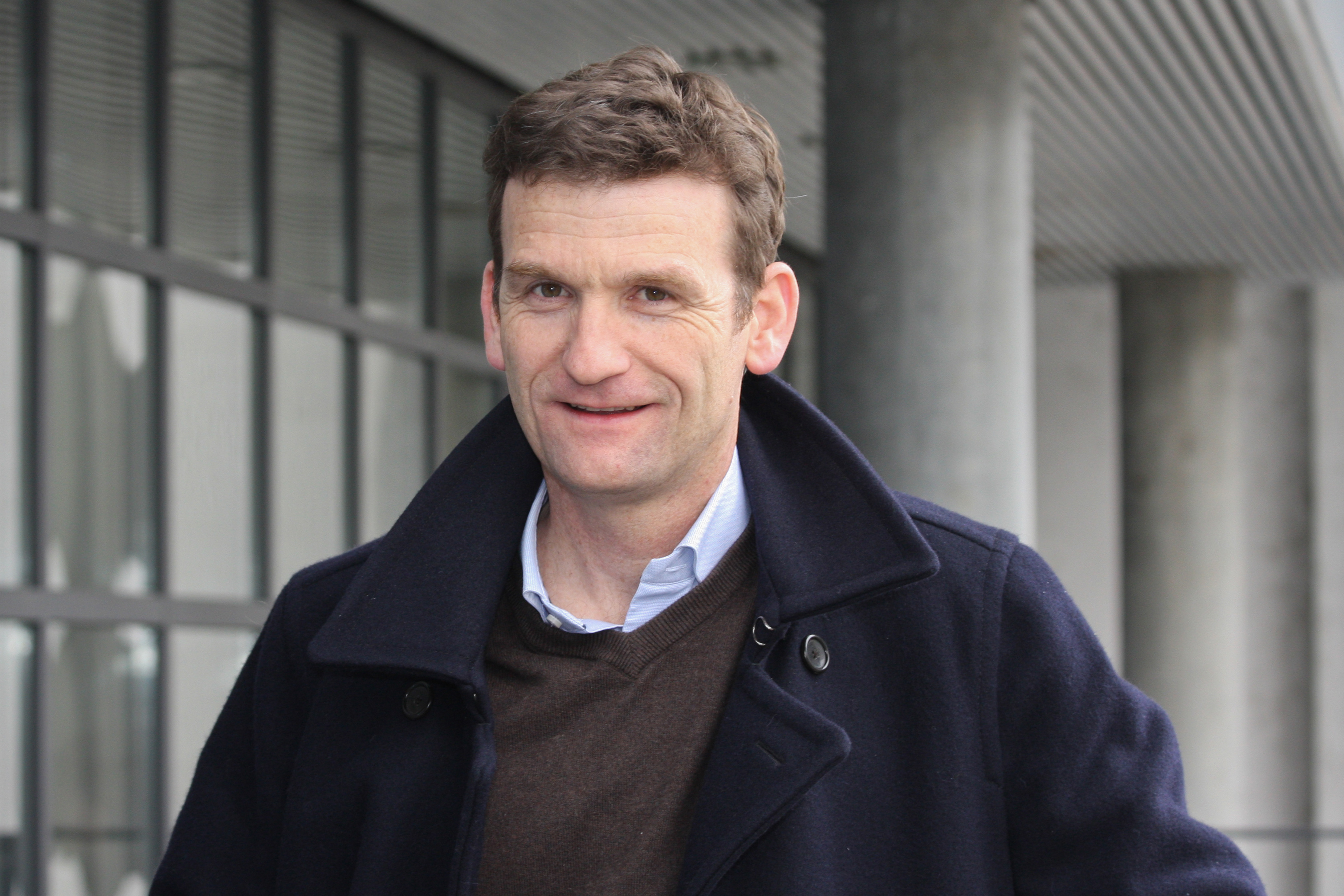 Professor Urs Jenal, Biozentrum University of Basel Switzerland